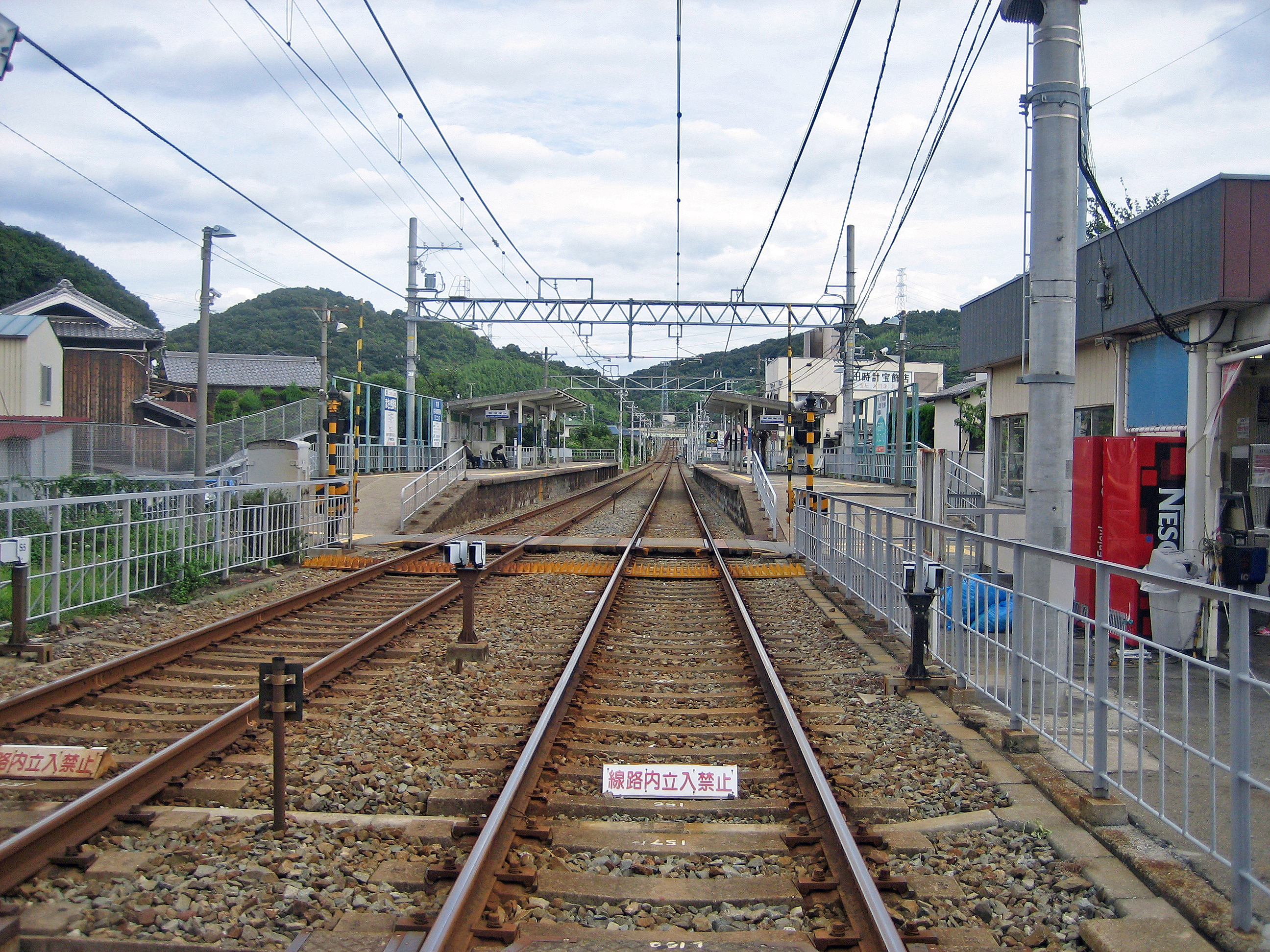 Yaka Station